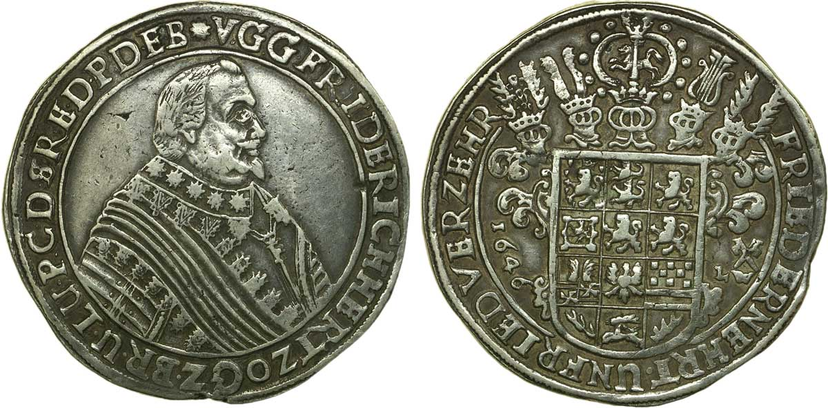 Germany, Principality of Lüneburg, Frederick IV, Prince of Lüneburg 1636-1648. Ag 1 Thaler 1646 LW. (43mm, 28,9g) Obverse: Half length portrait from the right, circumscr.: V[on] G[ottes] G[naden] FRIDERICH HERTZOG Z•[u] BR[aunschweig] U•[nd] LU•[neburg] P C D S R H D P D E B * / reverse: 5 helmets over coat of arms with 12 quarterings, circumscr.: FRIED ERNEHRT•UNFRIED VERZEHR (sic!), Welter 1415.